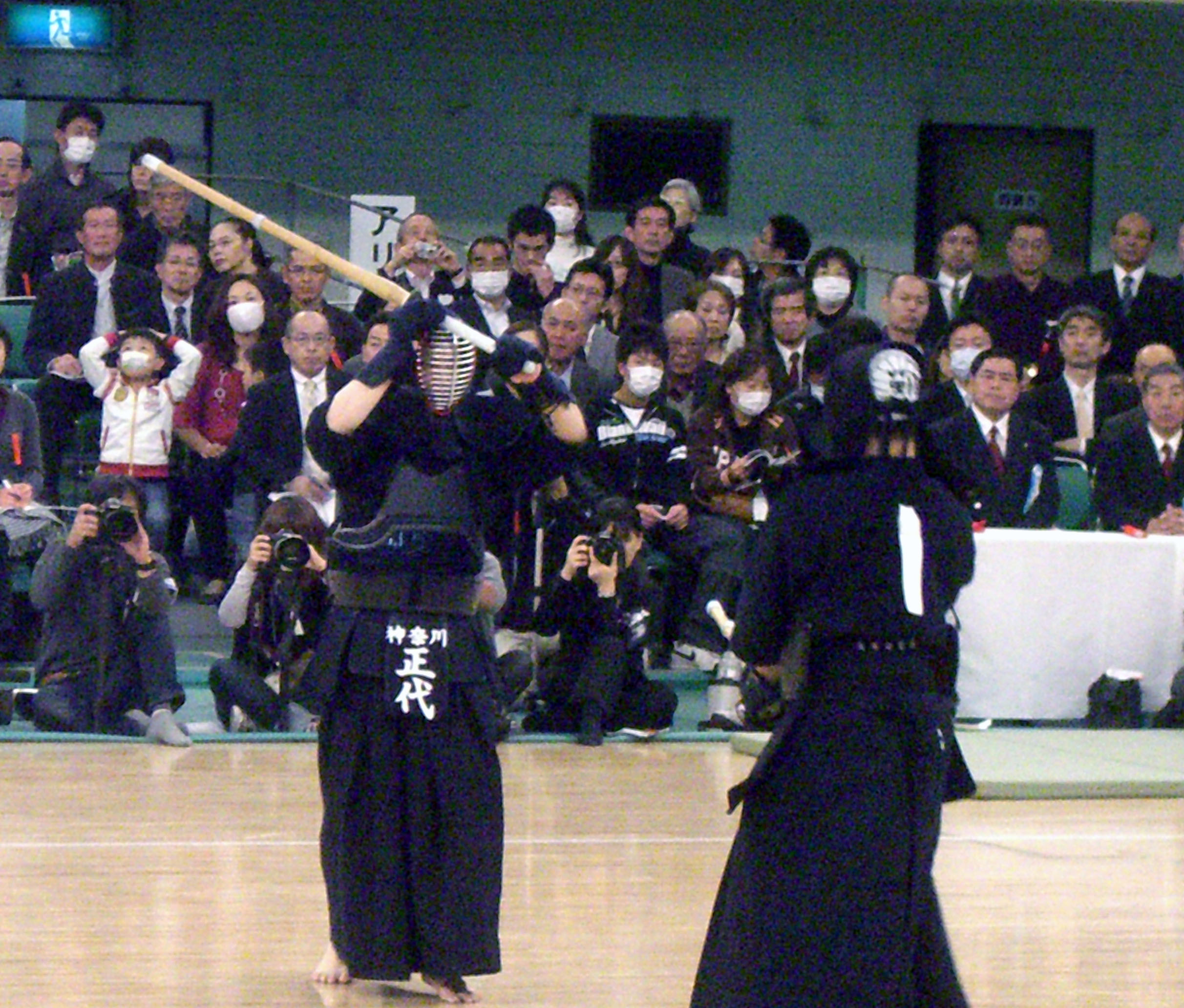 57th All Japan Kendo Championship, Nov 3rd, 2009. Photo of Jodan Player (Shodai).